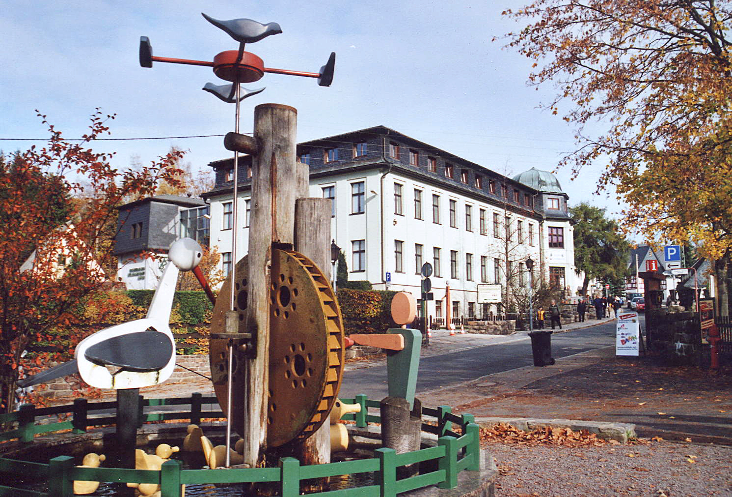 This image shows a fountain in front of the toy museum of Seiffen. Seiffen is the center of the wooden folk art production (especially with Christmas and toy themes) in the Ore Mountains.